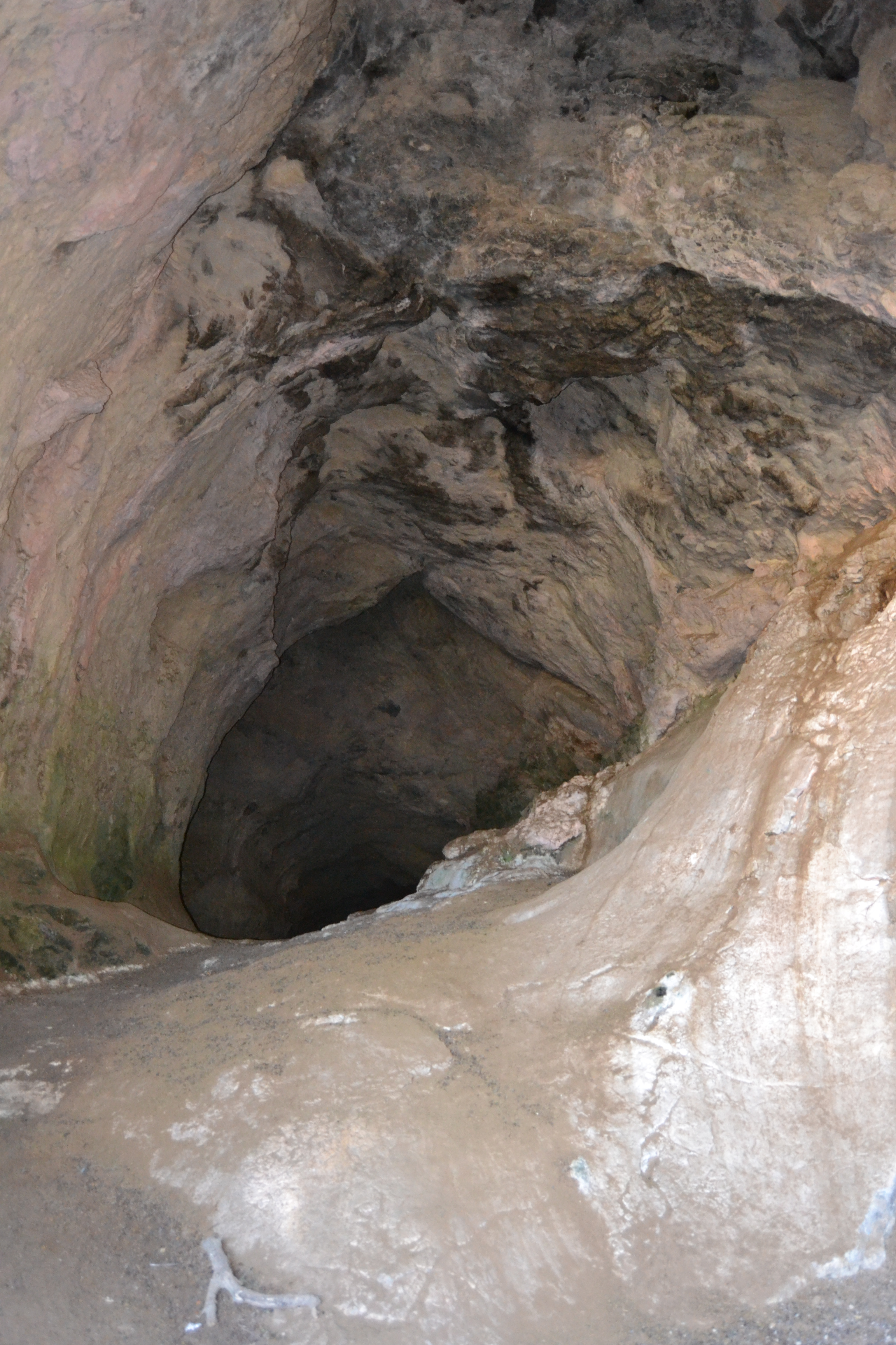 A cave in l'Alta Garrotxa ( Catalonia)